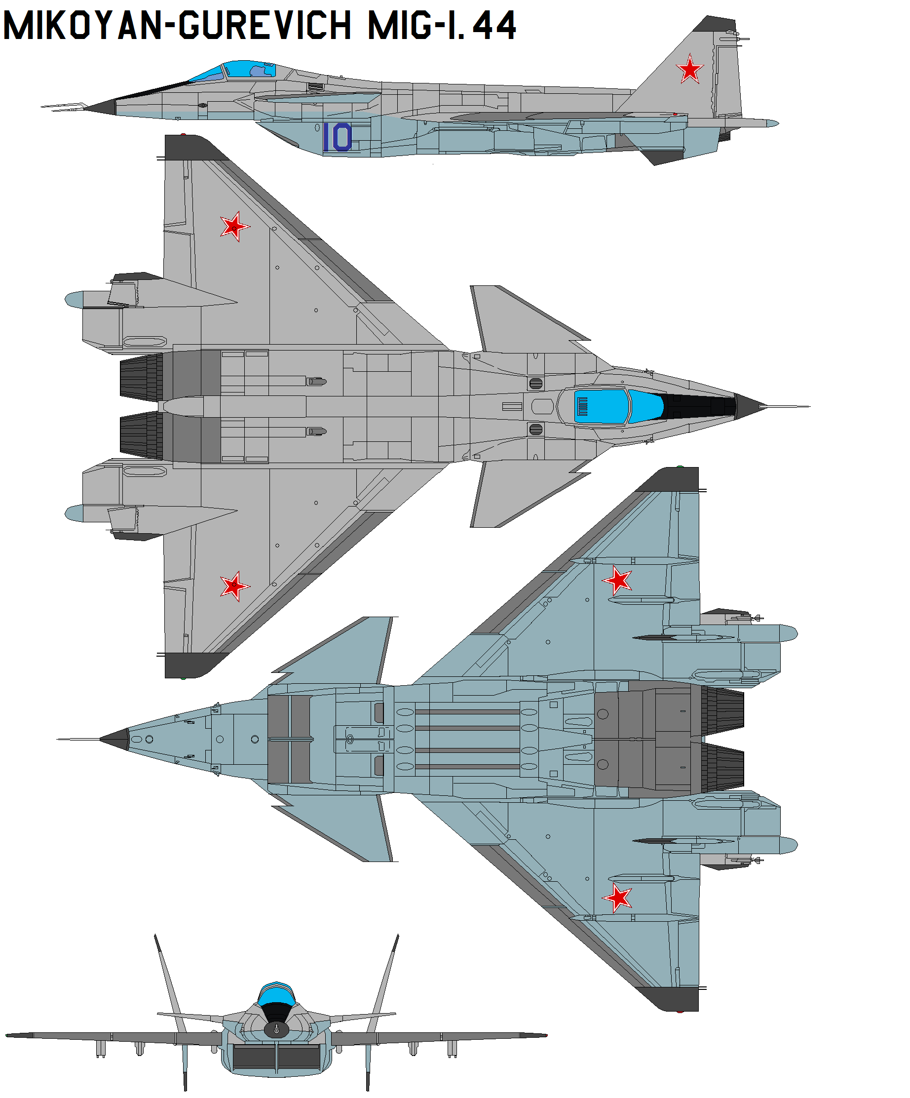 MiG-1.44 LFI